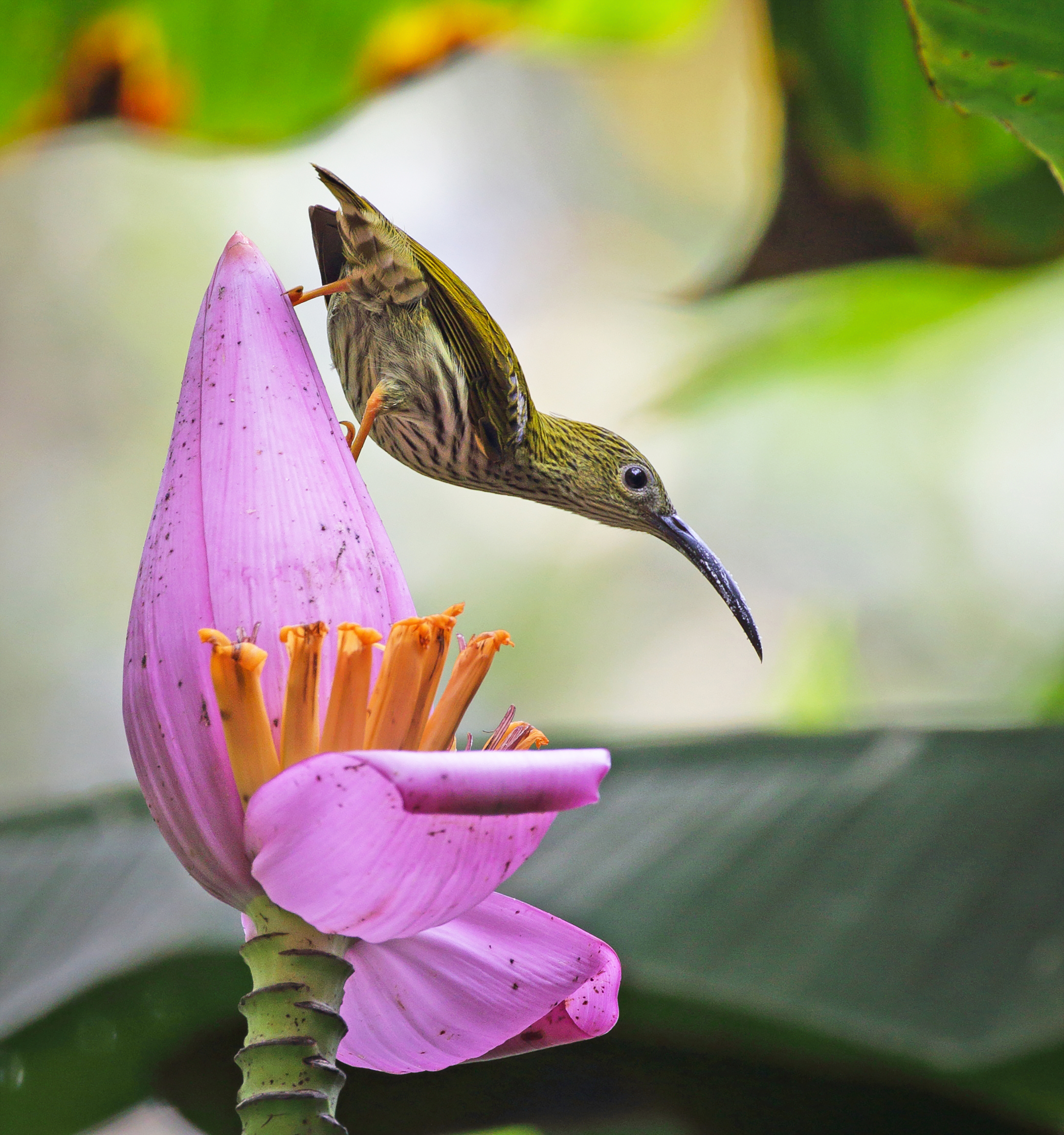 The Streaked Spiderhunter Arachnothera magna is a species of bird in the family Nectariniidae. Photo from Bangladesh.